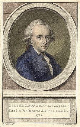 Portrait of Pieter Leonard van de Kasteele (1748-1810), Dutch politician, patriot and poet.